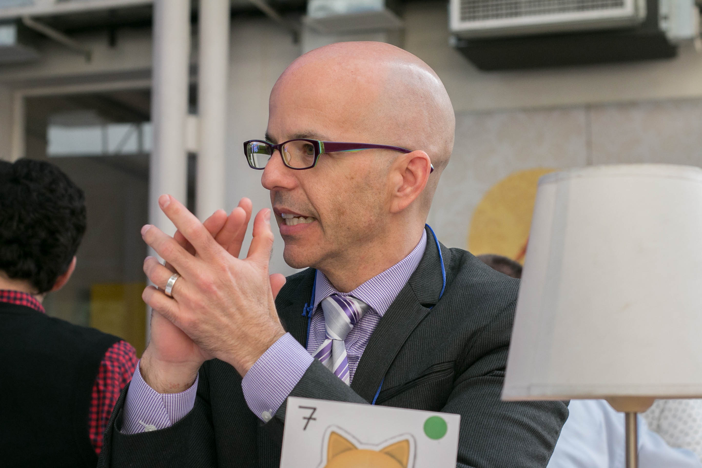 CAS (127 of 179)